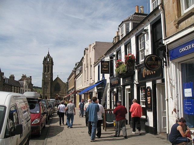 High Street, Peebles View westward along Peebles High Street